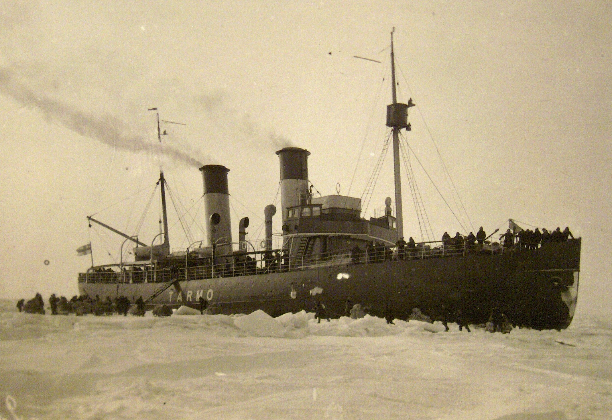 Finnish icebreaker Tarmo rescue of fishermen